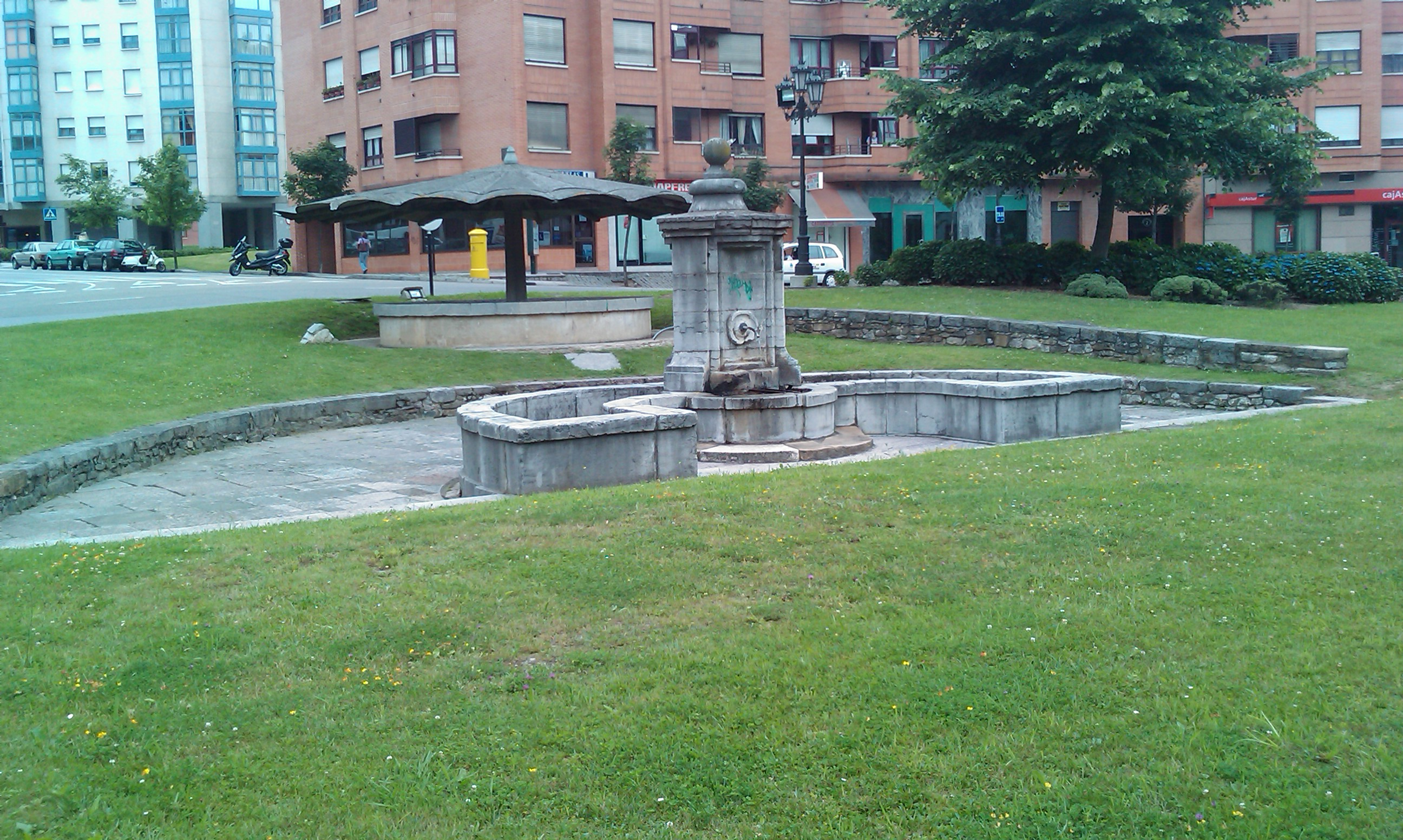 Fountain of 'Cuatro Caños', in La Corredoria, Oviedo, Asturias, Spain